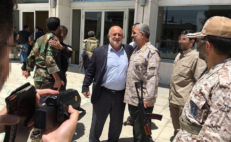 Brigadier general Mohammad Pakpour, Commander of the IRGC Ground Forces, after the 2017 Tehran attacks was ended by the involvement of IRGC Special forces.